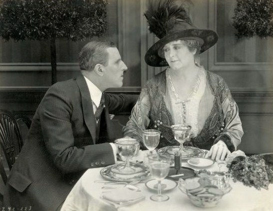 Gustav von Seyffertitz and Sylvia Ashton in the film Old Wives for New (1918) - cropped screenshot